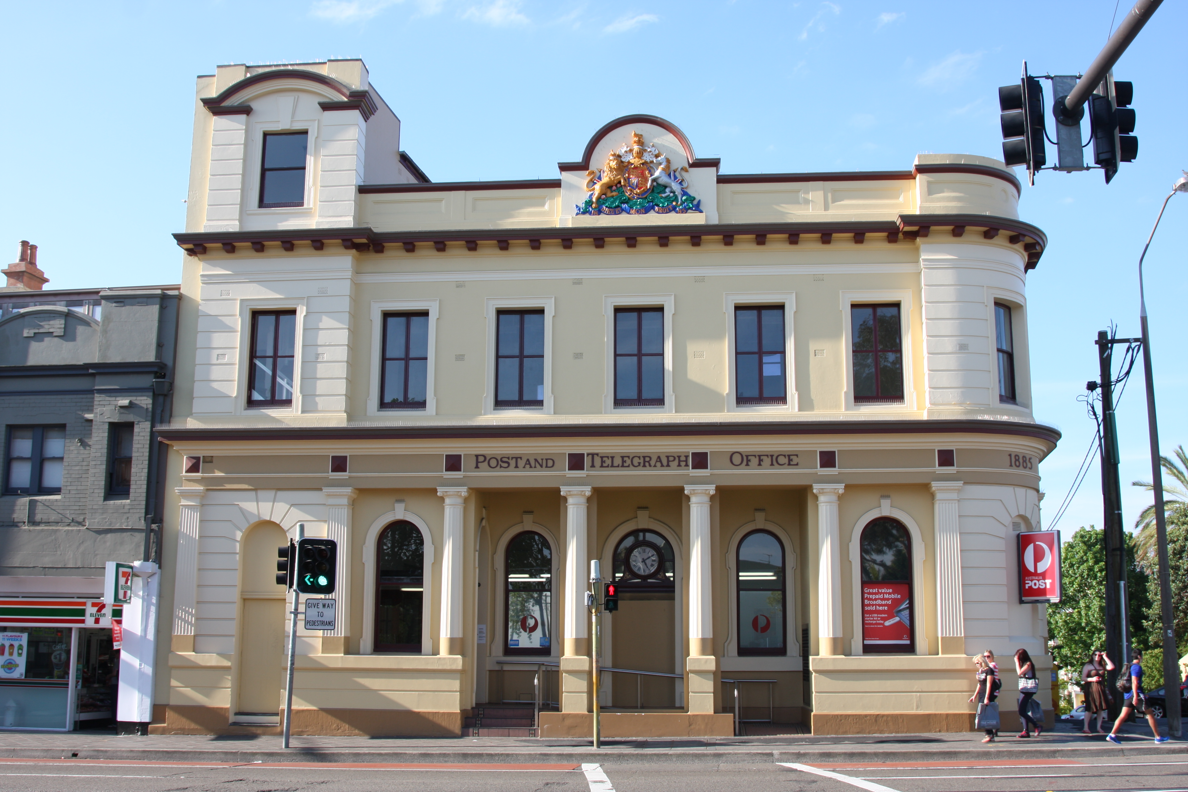 Paddinton post office, New South Wales.